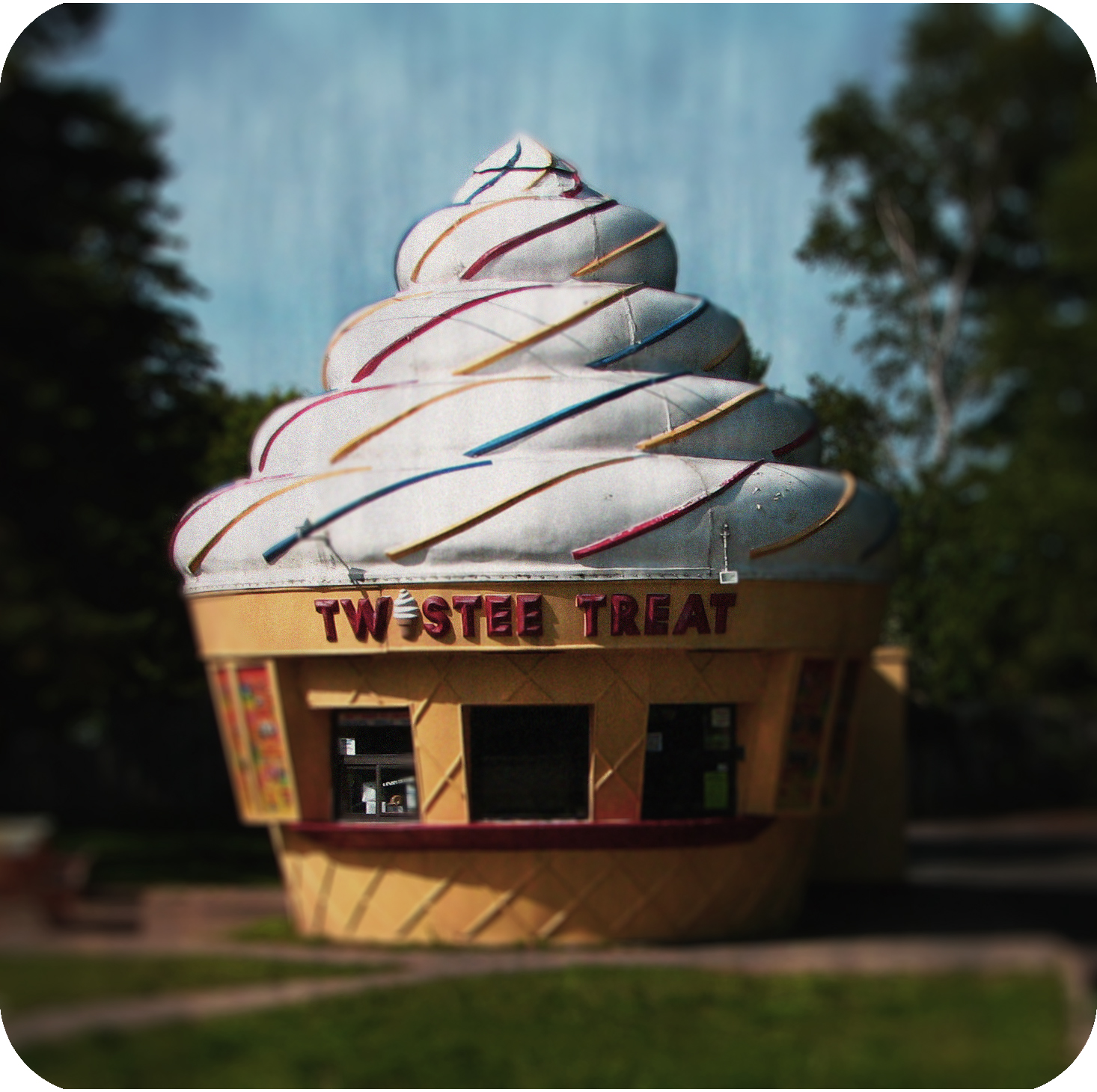 'Twistee Treat' Restaurant On White